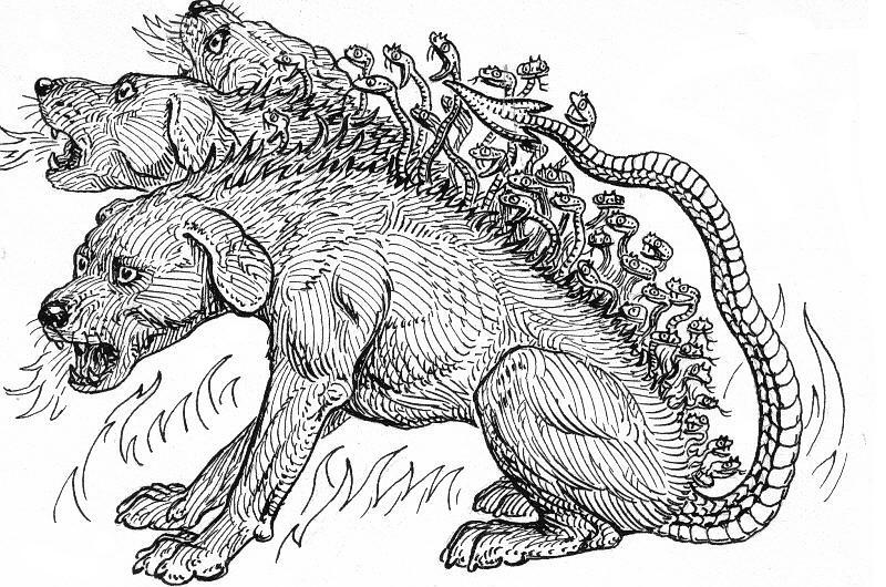 Line art drawing of Cerberus.